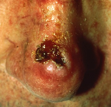 Title: Pathology: Patient: Squamous Cell Carcinoma Description: Tends to arise from pre-malignant lesions, actinic keratoses; surface is usually scaley and often ulcerates (as shown here). Subjects (names): Topics/Categories: Pathology -- Patient Type: Color Slide Source: National Cancer Institute Author: Unknown photographer/artist AV Number: AV-8500-3609 Date Created: 1985 Date Entered: 1/1/2001 Access: Public